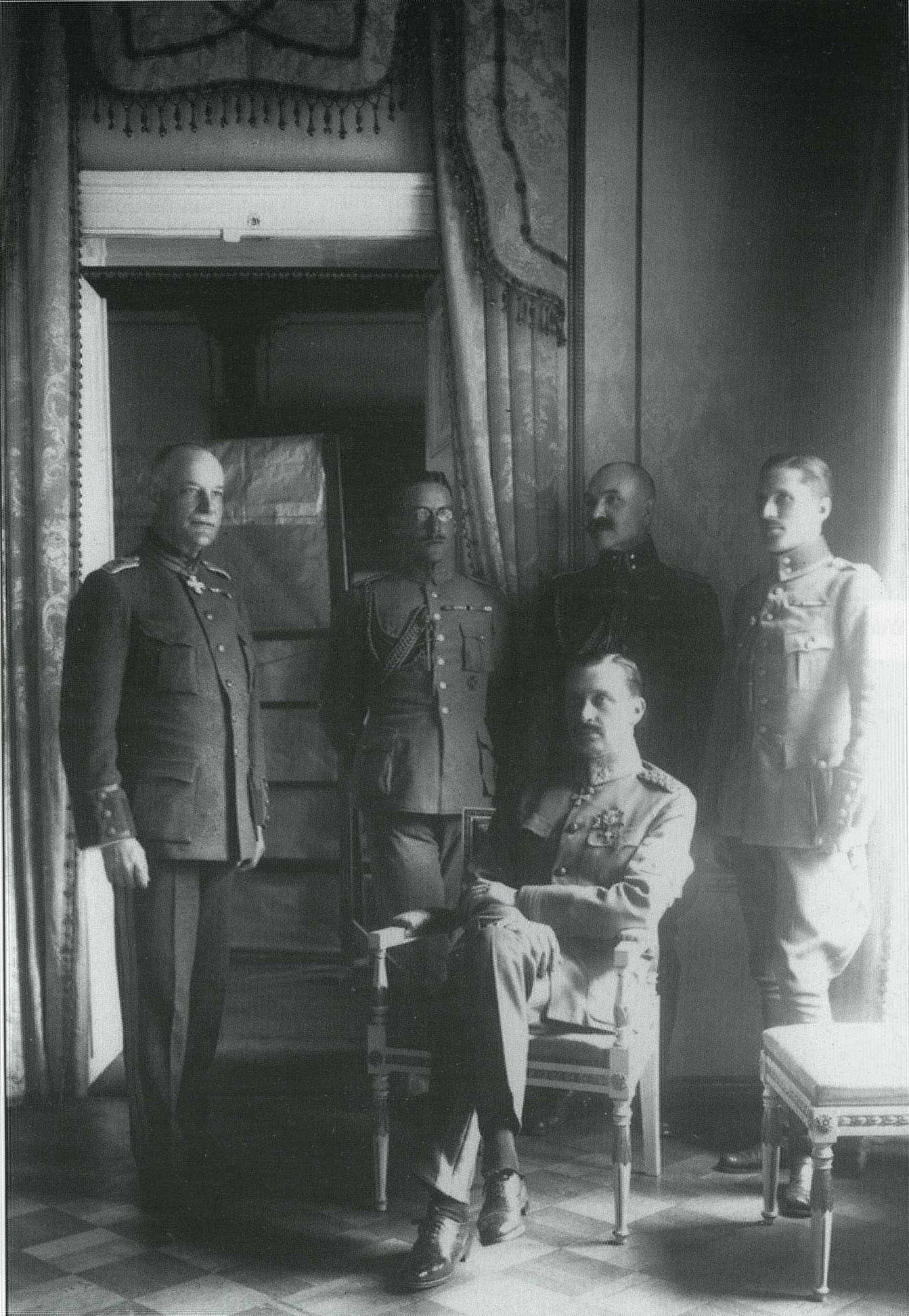 Mannerheim Regent of Finland (1918–1919), adjutant´s - Lieutenant-Colonel Lilius, Captain Kekoni, Lieutenant Gallen-Kallela, 2nd Lieutenant Rosenbröijer